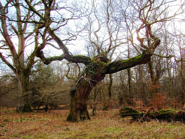 An old, damaged oak, Savernake Forest Comment seems superfluous somehow.